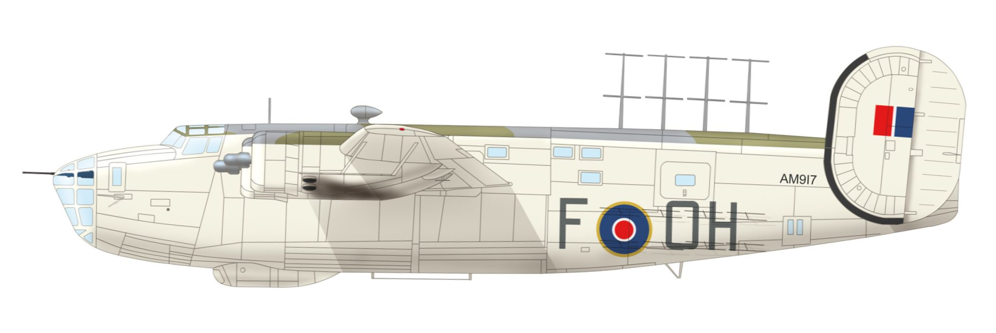 Consolidated Liberator Mk.I of 120th Squadron Coastal Command RAF, used since December 1941